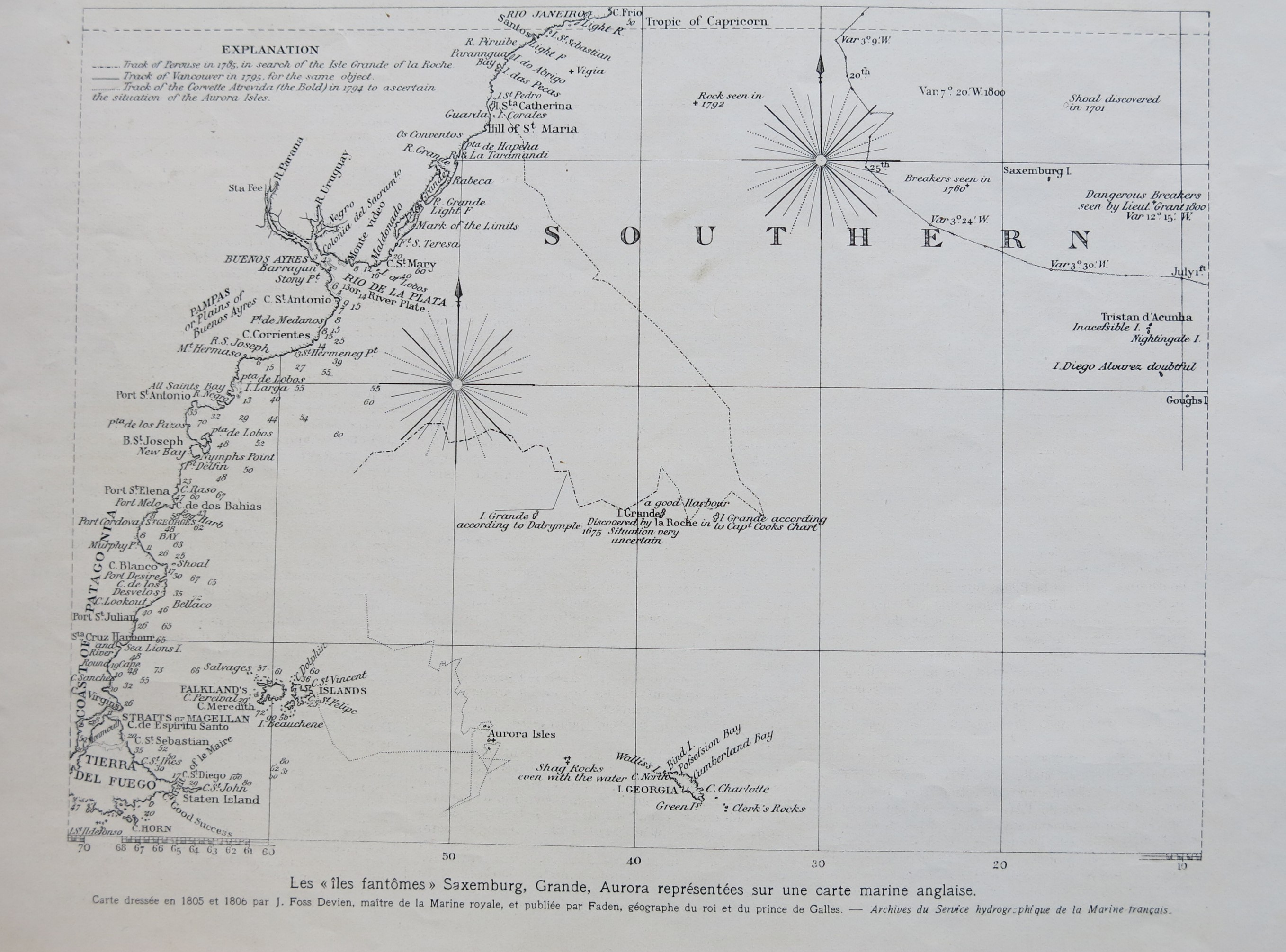 Map with an overview of the in Southern Atlantic.